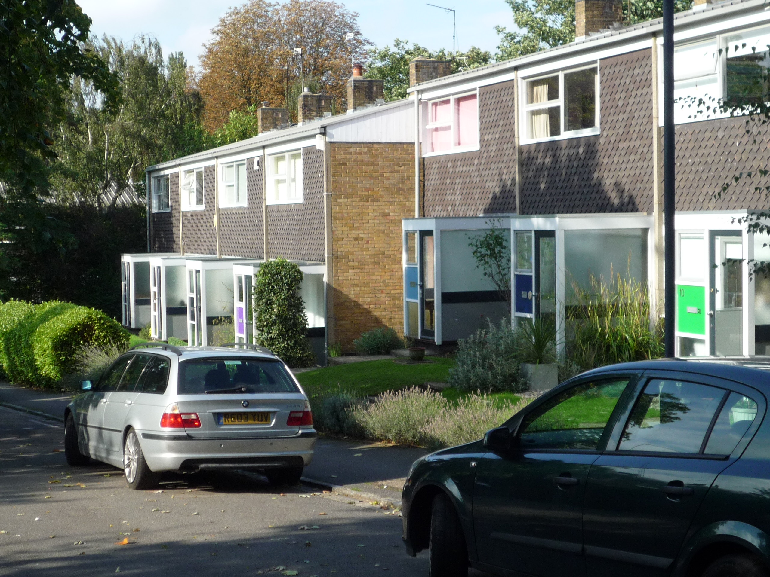 From left to right, numbers 22 to 10, The Keep, Blackheath, London, SE3. Description below.